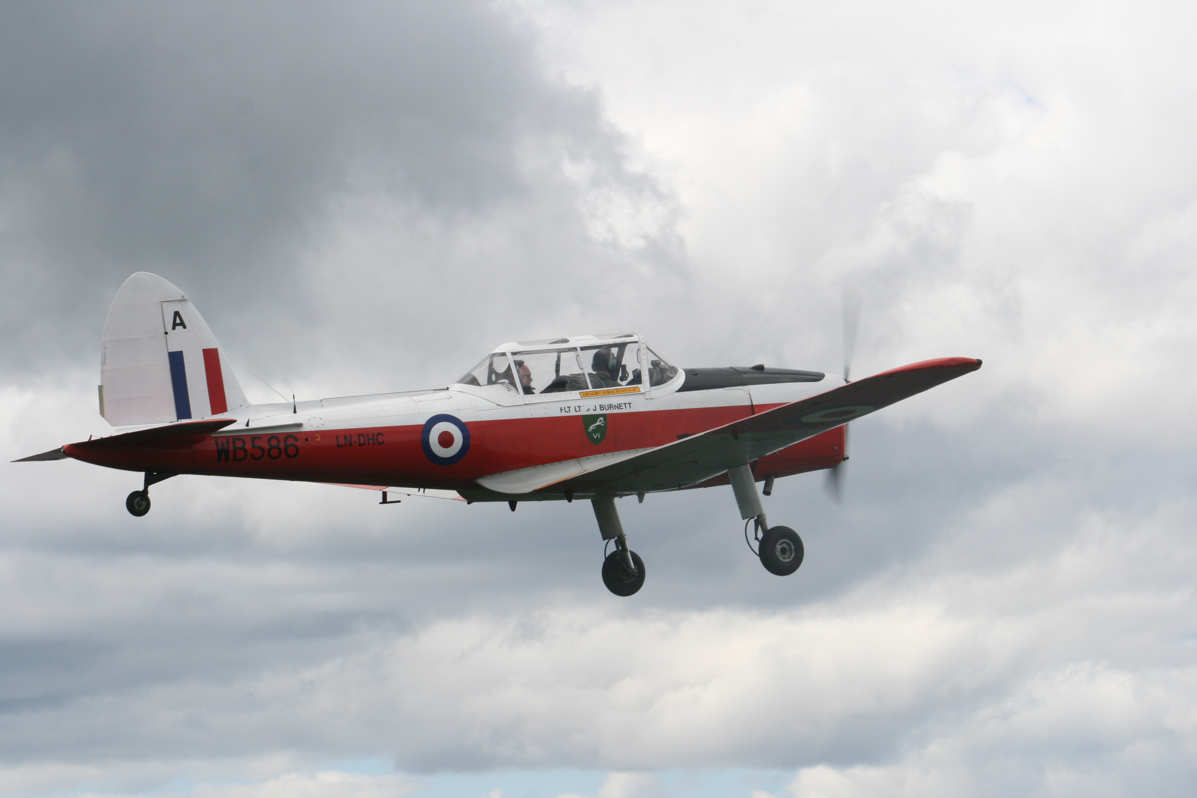 De Havilland Canada DHC-1 Chipmunk LN-DHC. Year of production 1950. Photo from June 2015.